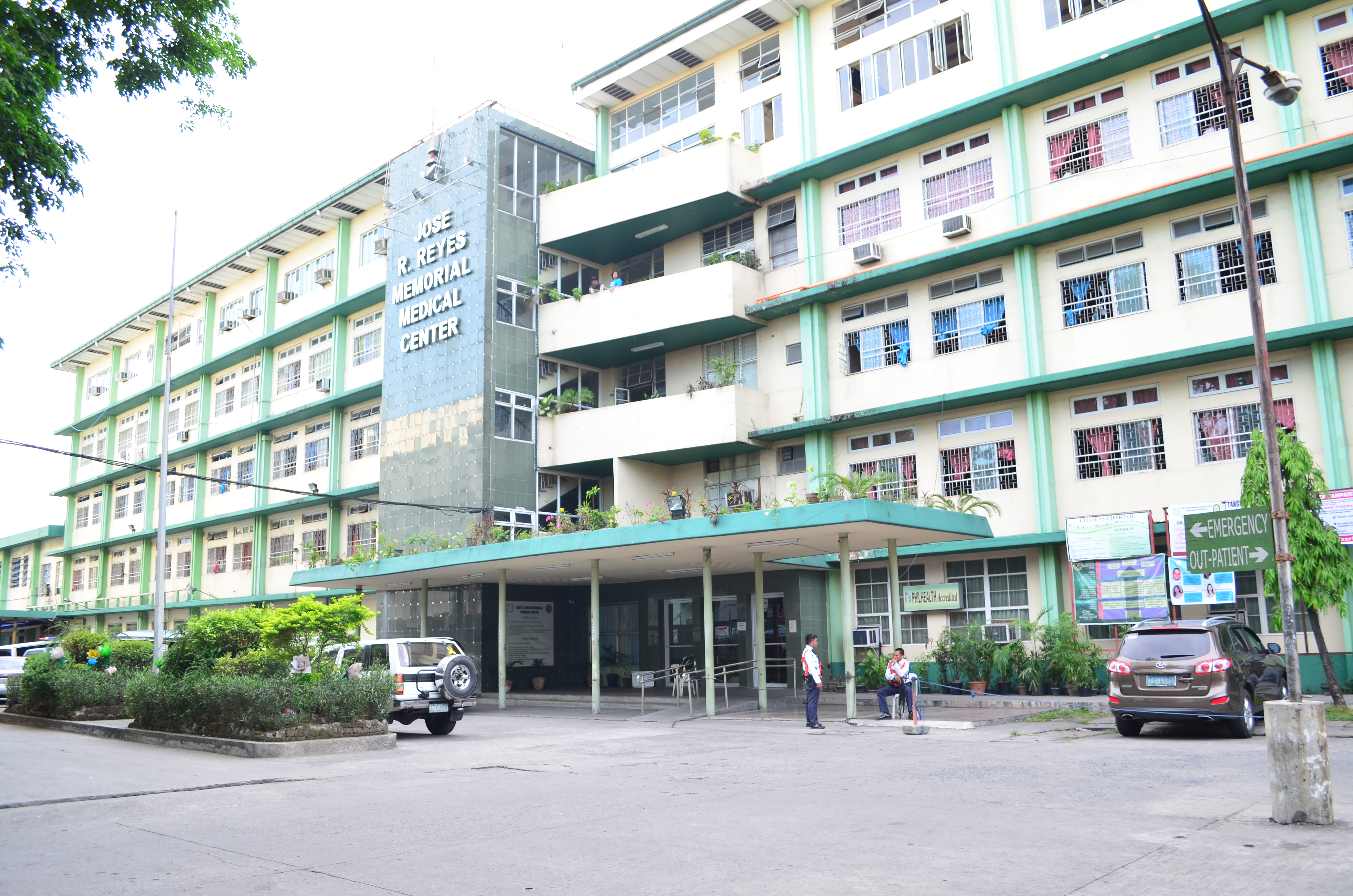 José R. Reyes Memorial Medical Center is located along Avenida Rizal, Santa Cruz, Manila.